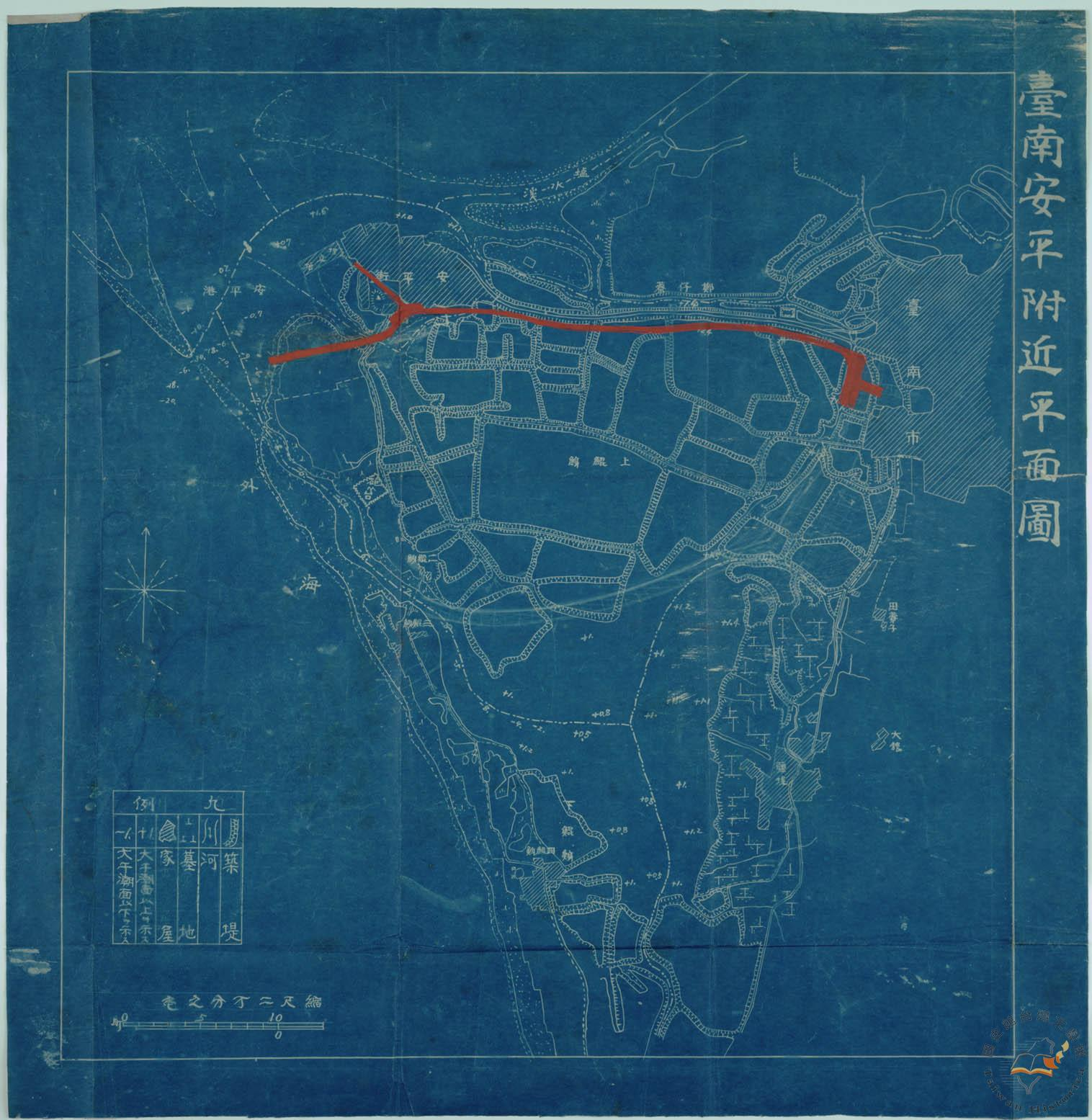 Tainan Canal Plan, 1921